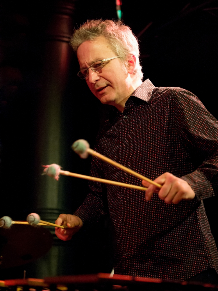 Christopher Dell, Jazz vibraphonist; Picture taken in Jazz Club Unterfahrt, Munich/Bavaria